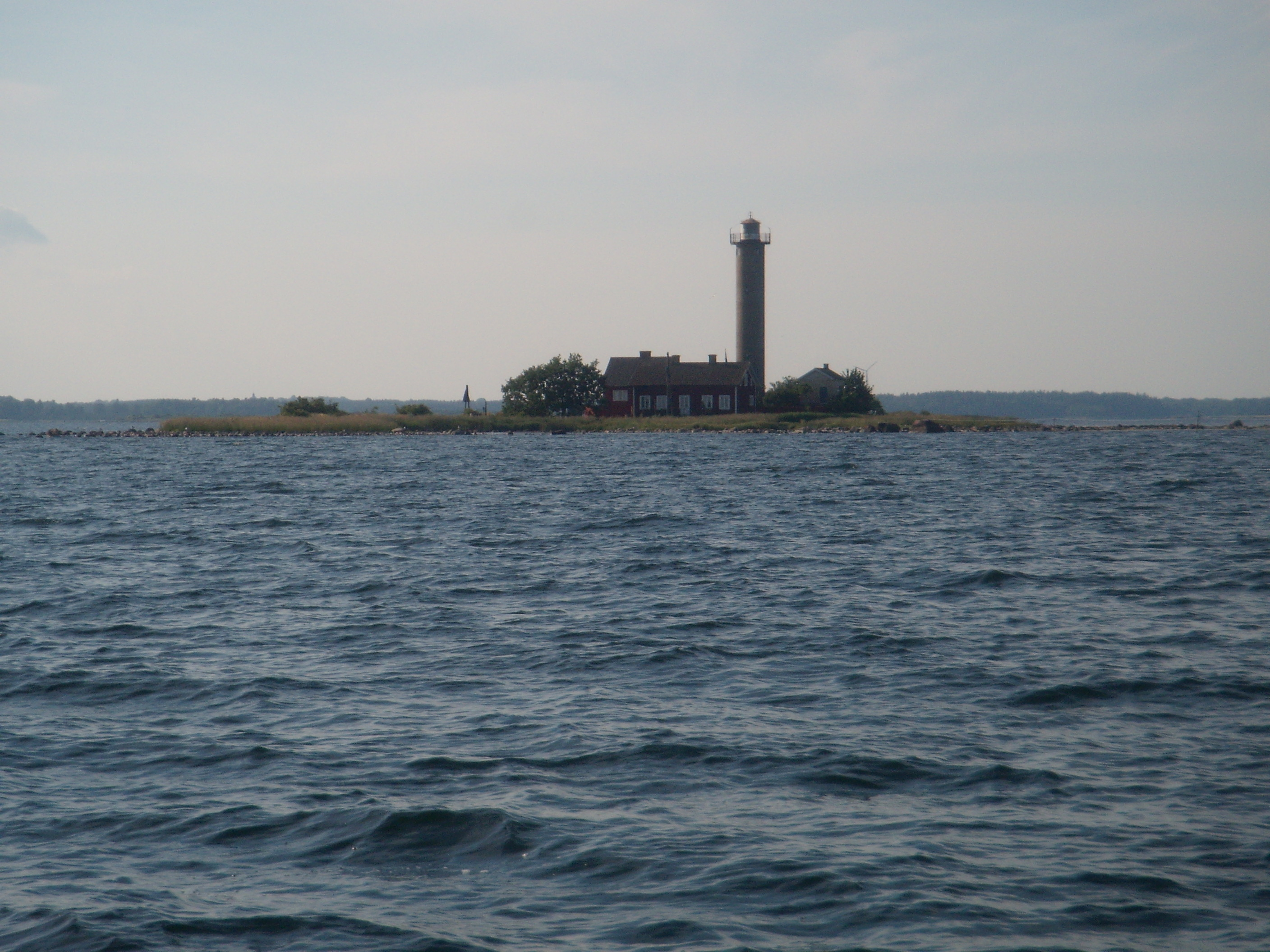 Garpen lighthouse. Bergkvara